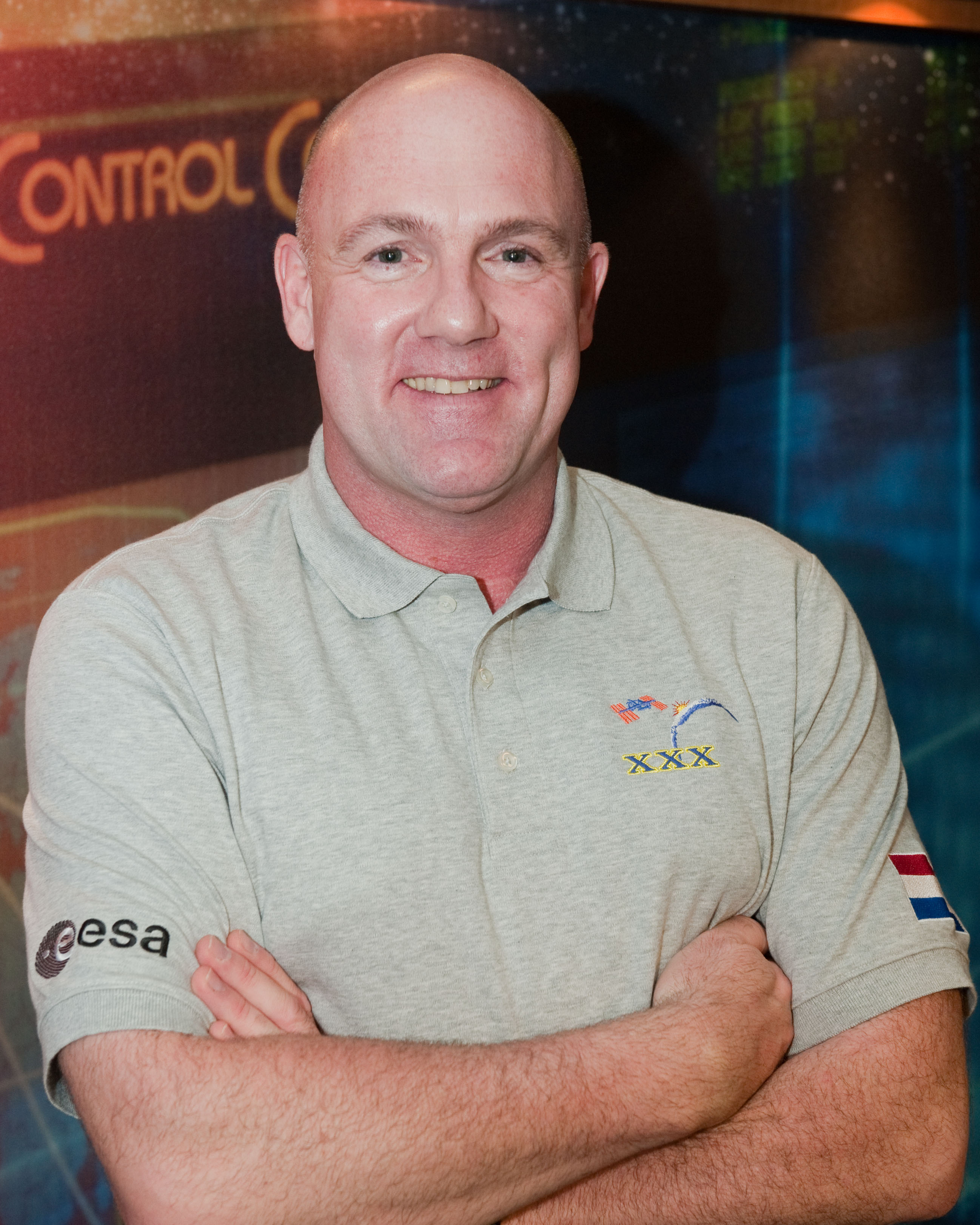 European Space Agency astronaut Andre Kuipers, Expedition 30/31 flight engineer, poses for a portrait following an Expedition 30/31 preflight press conference at NASA's Johnson Space Center.